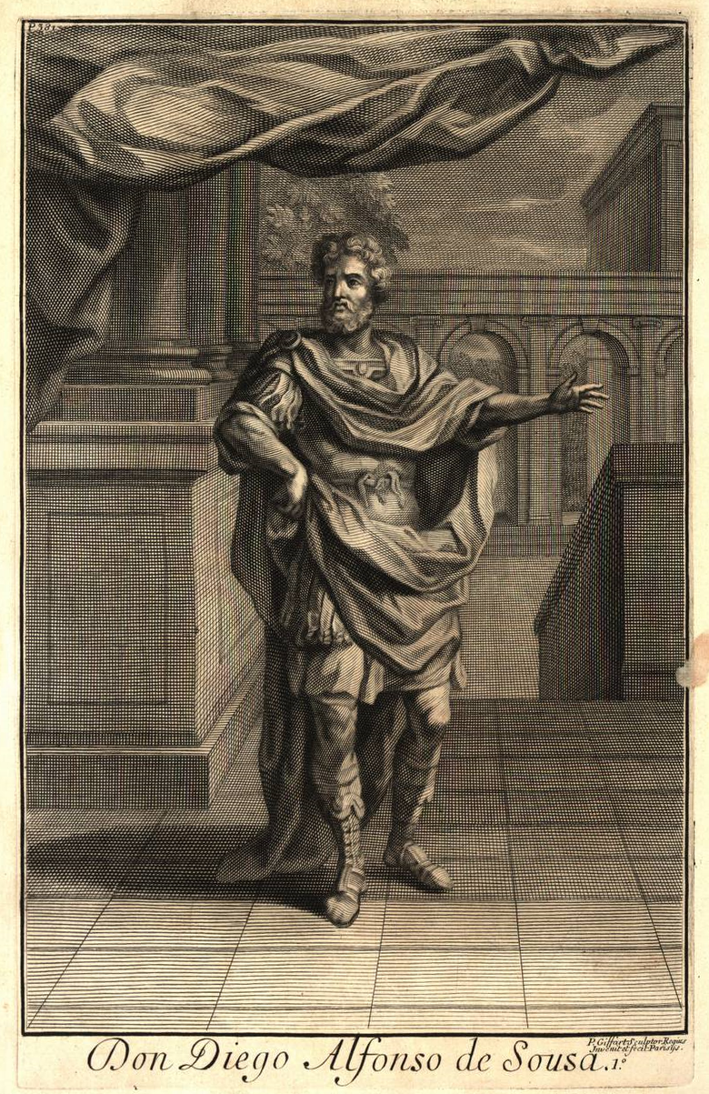 D. Diogo Afonso de Sousa (c. 1303-1344), medieval Portuguese nobleman